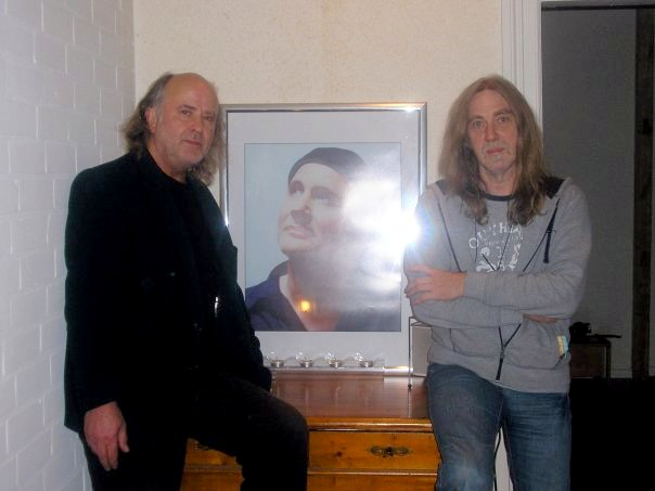 At the left: Michael Scholz. Right: Detlef Wiedeke. From Systems in Blue.